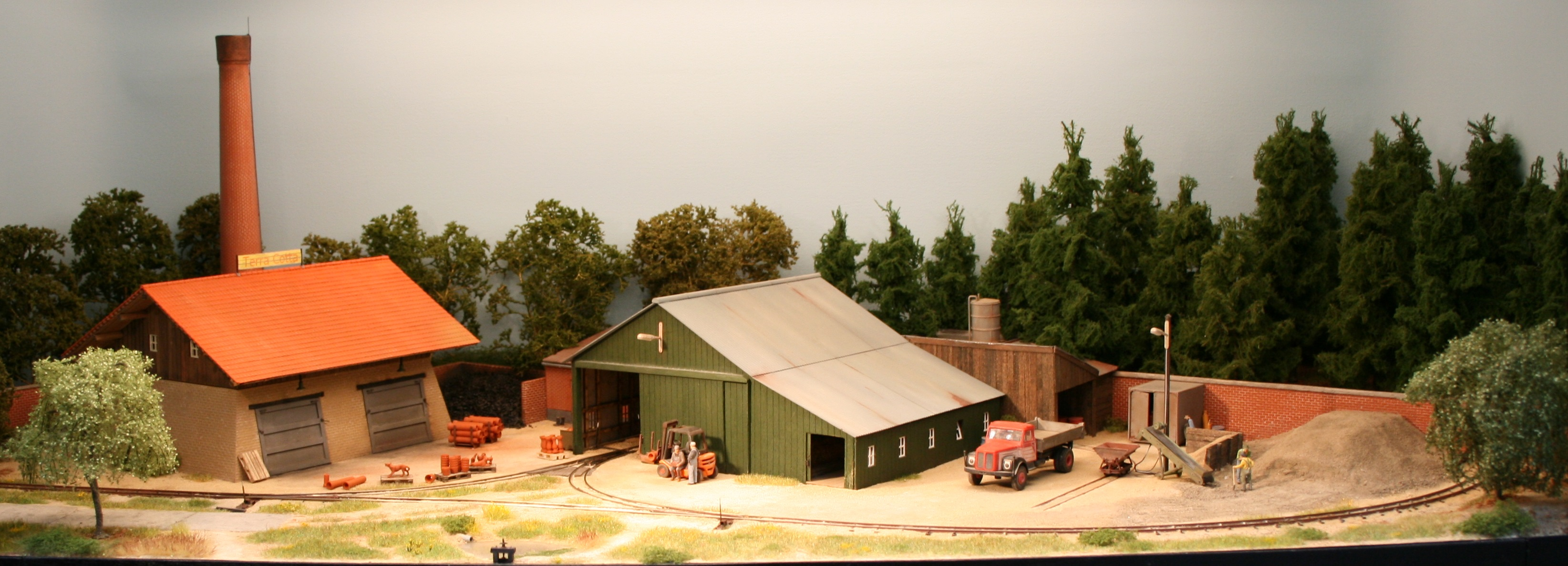 Terra Cotta, Otto Schouwstra's layout : HO scale on 6.7mm track (HOf) with automatic operation and a sound system using sensors and speakers placed around the the layout.